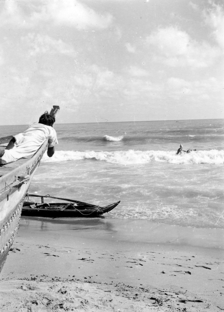 Looking out to sea. Madras, 1945 [from a collection of prints mounted on airmail tissue that were used to ship photos home to the U.S.; contact sheet 6]. Subject: "beach, boat"